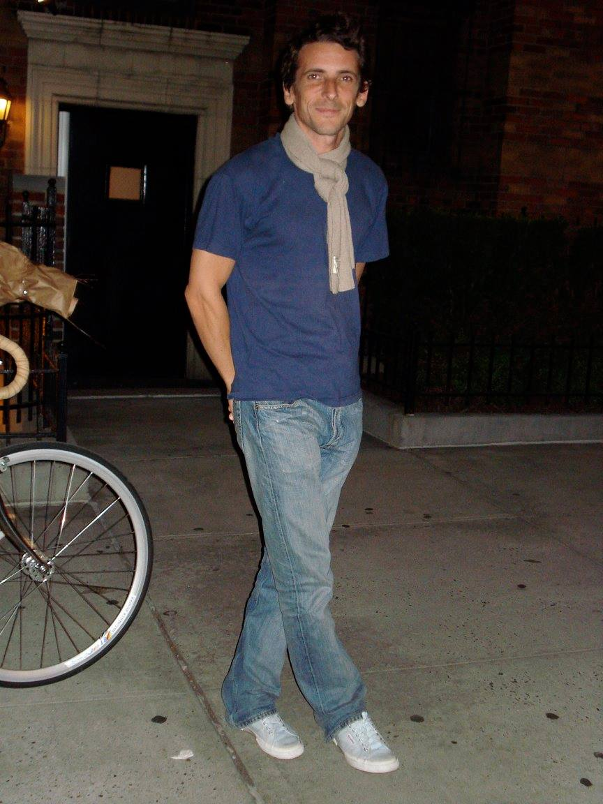 Beninati in Chelsea, NYC. Spring 2008